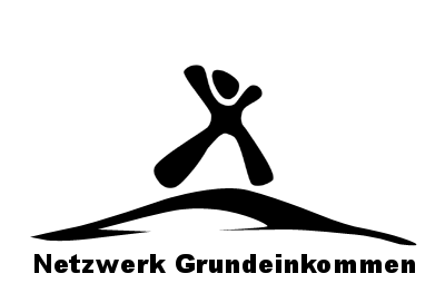 Logo "Netzwerk Grundeinkommen" (Germany)